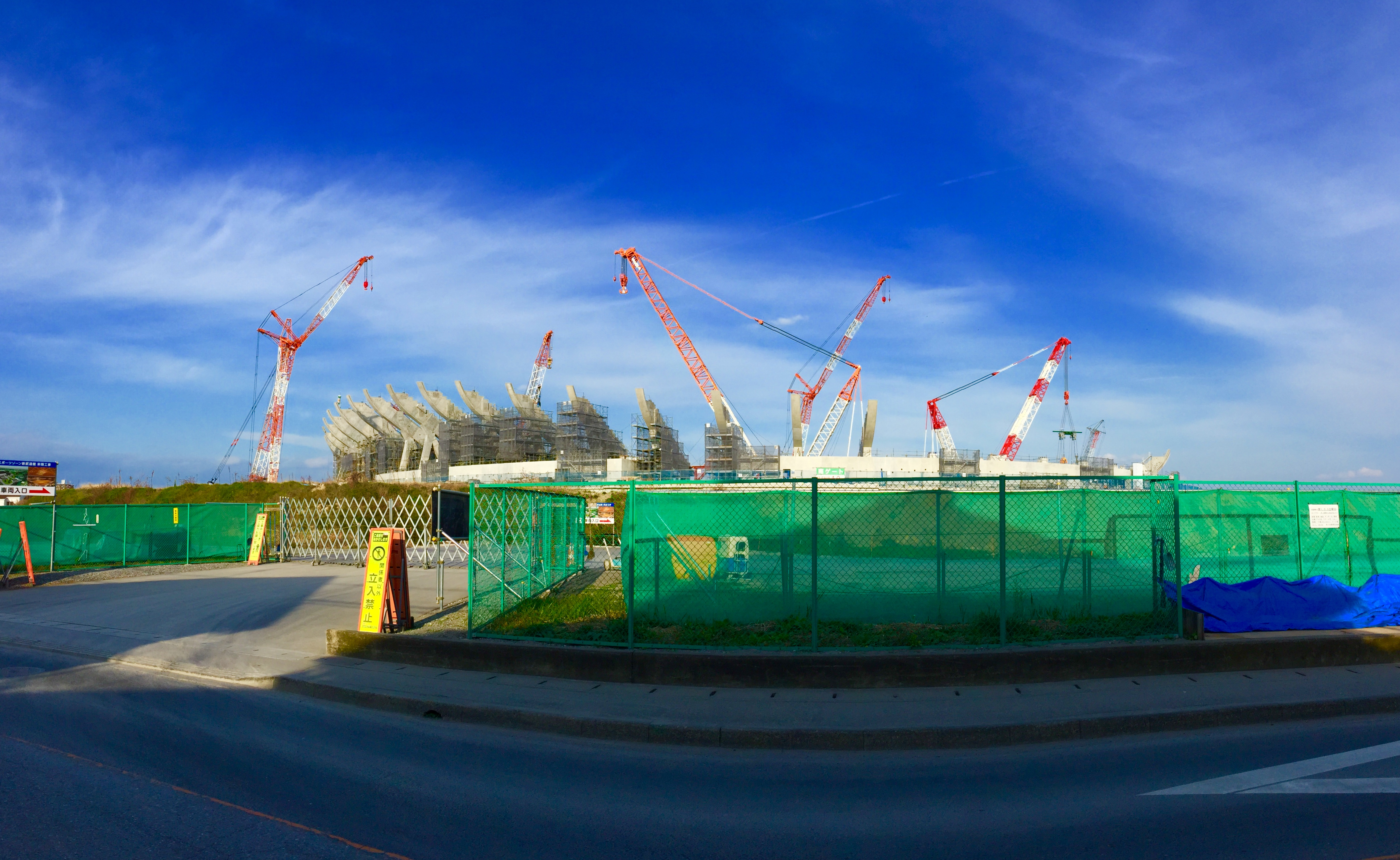 An athletic stadium under construction in Utsunomiya City, Tochigi Prefecture.